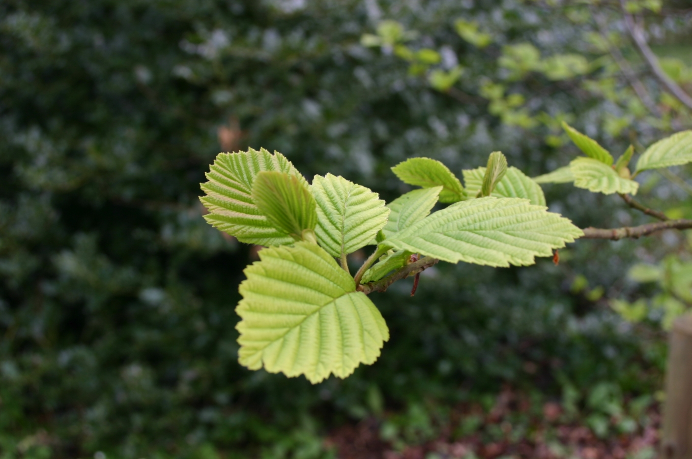 Alnus hirsuta: Young leaves.